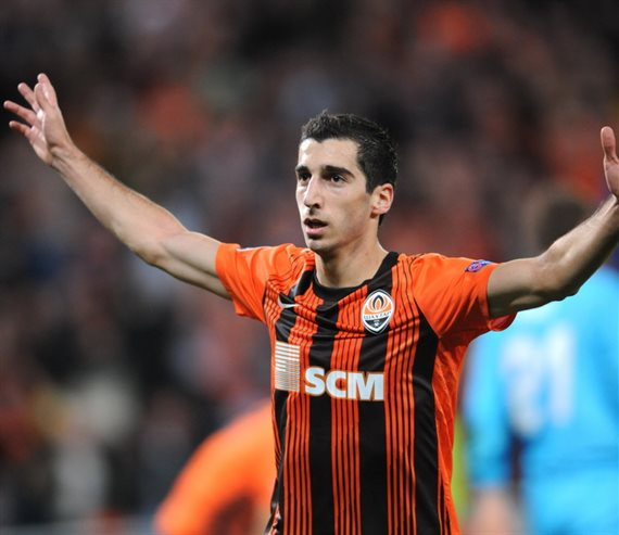 Heinrich Mkhitaryan